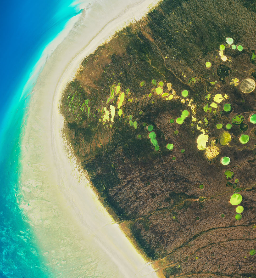 Dewey Soper Migratory Bird Sanctuary in western Baffin Island, Canada. Data acquired September 14, 2019 by NASA’s Landsat 8 satellite. Published October 10, 2019.